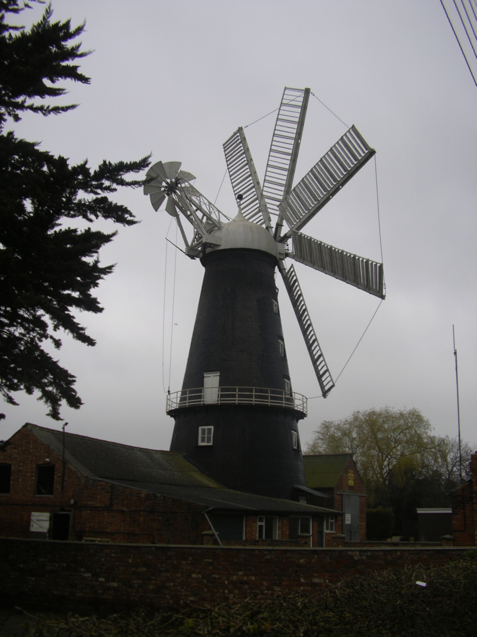 Heckington Windmill, seen from the south.